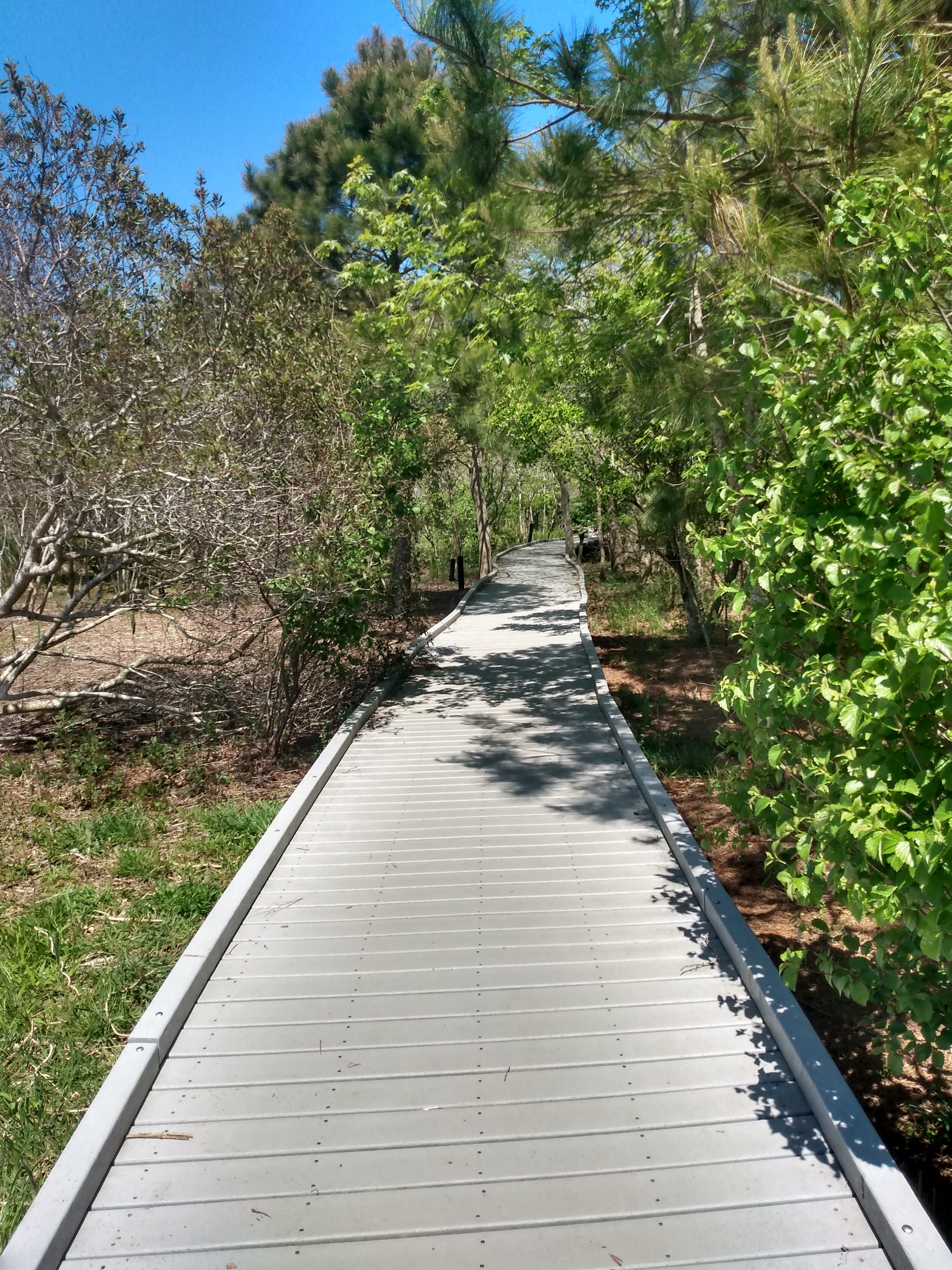 The yellow trail at Cape May Point